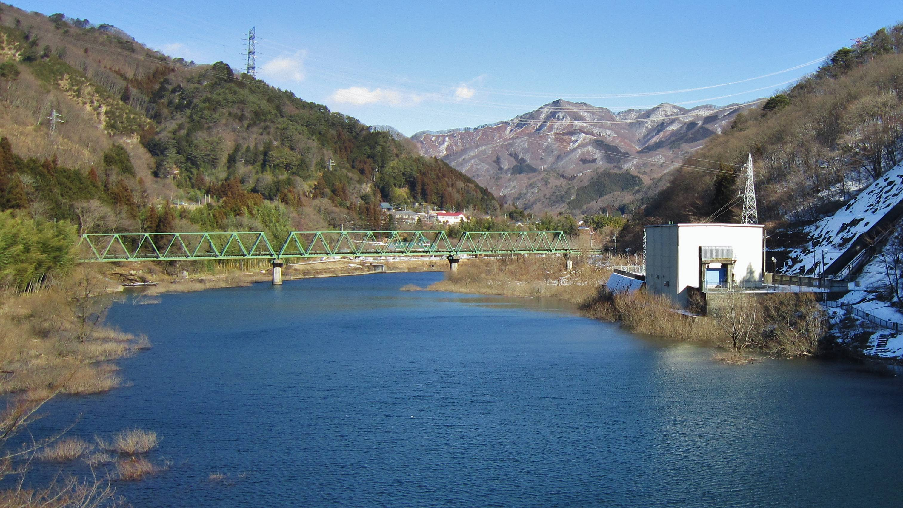 Lake Kusaki and Sōri Power Station.